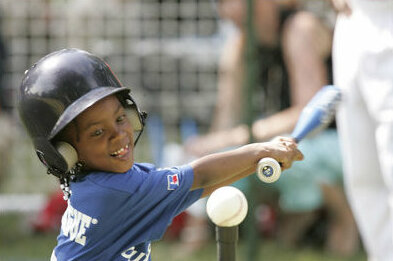 Shaquana Smith of the Jackie Robinson South Ward Little League Black Yankees of Newark, N.J., swings at the ball Sunday, June 26, 2005, during "Tee Ball on the South Lawn.